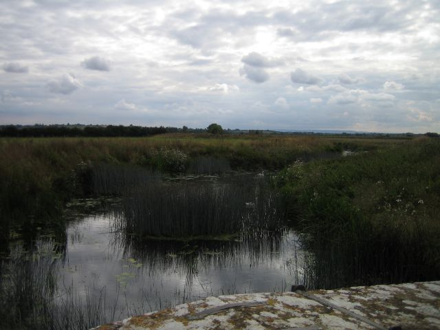 River Yeo. The view downstream from Pill Bridge.